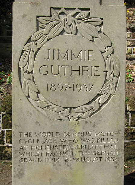 The Guthrie Memorial inscription. Inscription on the base of the Jimmie Guthrie memorial 754730 in Wilton Lodge Park.